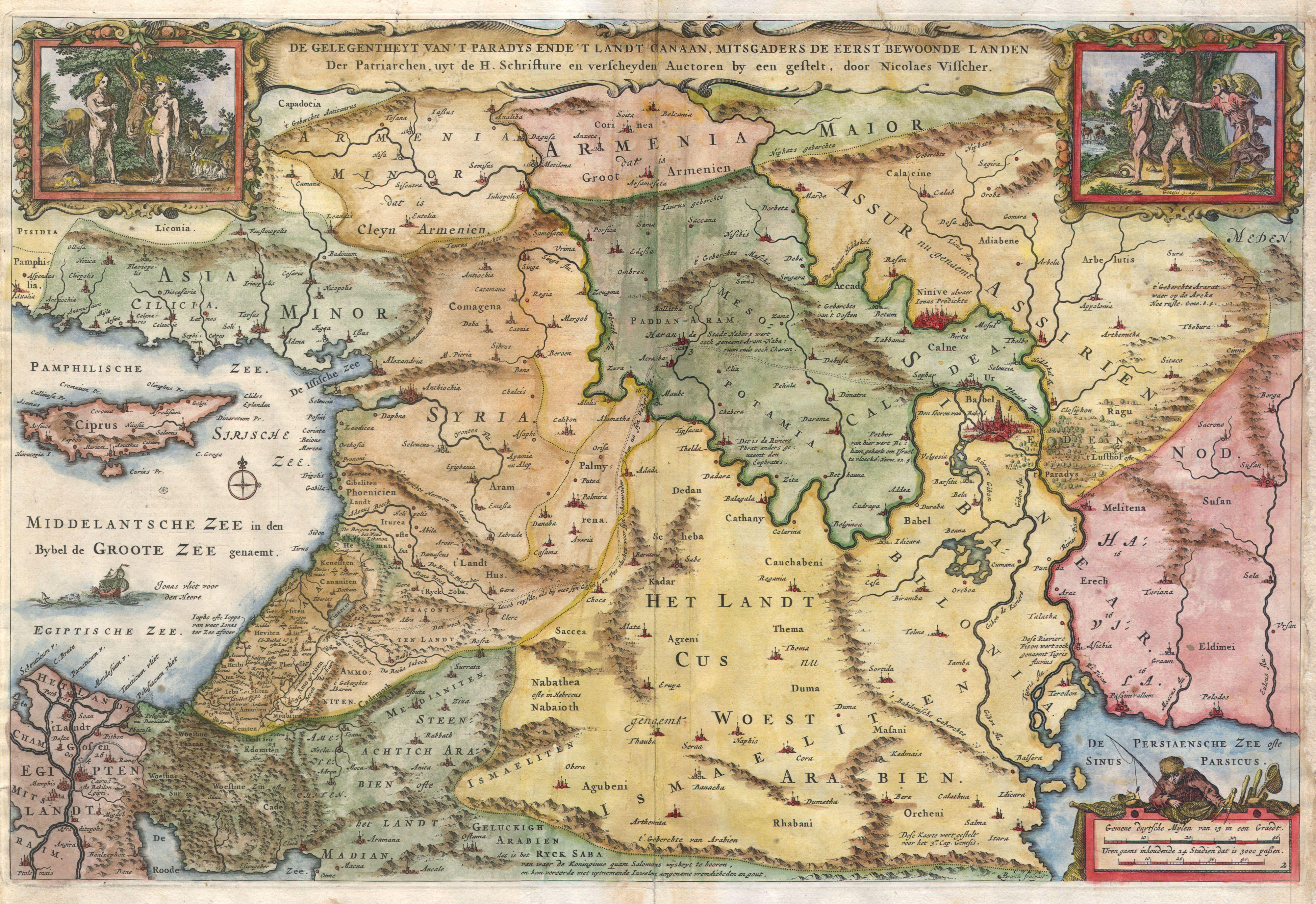 This is a splendid early example of Nicholas Visscher’s important 1657 map of the Holy Land, or as it is titled (in rough translation) “Paradise, or the Garden of Eden. With the Countries circumjacent Inhabited by the Patriarchs. Covers the region between the Mediterranean and the Persian Gulf (including the modern day regions of Israel, Palestine, Jordan Syria, Turkey & Iraq), and features a prominent the Garden of Eden located near the city of Babel ( Babylon ). The beautiful strapwork title along the top of the map is flanked on either side by cartouche scenes from Eden. In the Mediterranean, a sailing ship is being confronted by Jonas’s whale. In the lower left quadrant, a decorative scale of miles is topped by an elderly fisherman – one of Visscher’s marks. The map itself, combining actual and Biblical geography, is stunningly produced. Features the Land of Nod, the Garden of Eden, the Tower of Babel, and other semi-mythical locations. This map was drawn by Visscher as part of a five part map series for inclusion in Abraham van den Broeck’s 1657 Dutch Staten Bible. This is the first edition of this important map series which would become basis for numerous other Biblical maps appearing through the 18th century, including those of Stoopendal , Krul and Maxon.